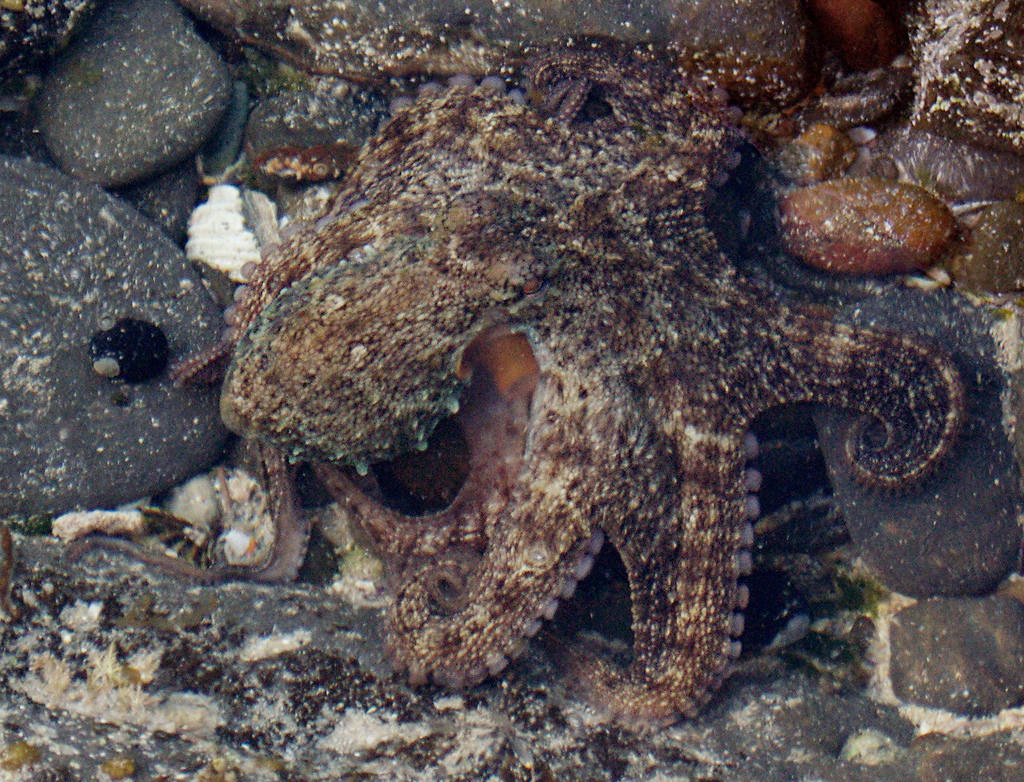 Octopus in a tidal pool in New South Wales, Australia